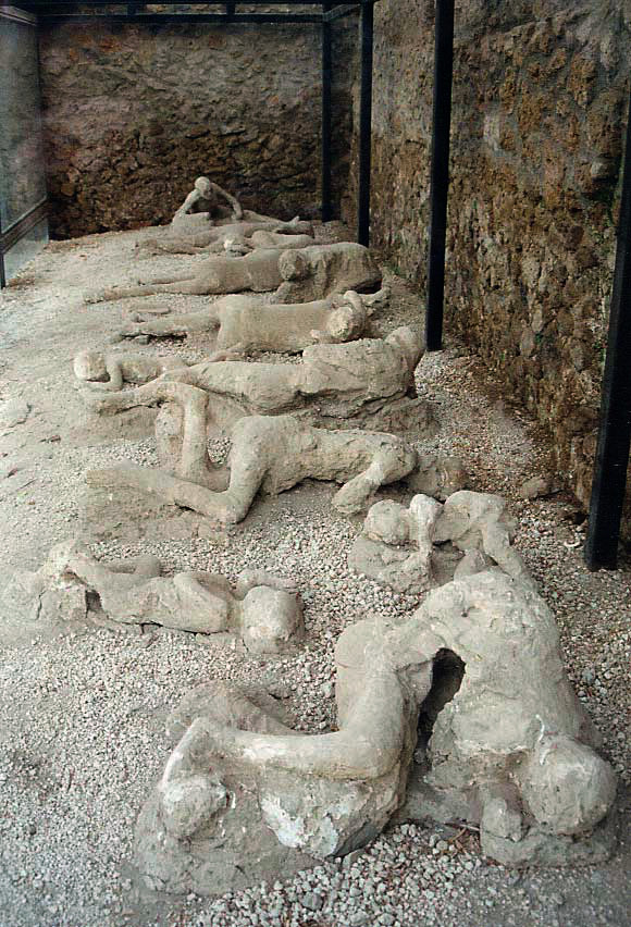 The casts of the corpses of a group of human victim of the 79 AD eruption of the Vesuvius, found in the so-called “Garden of the fugitives” in Pompeii.